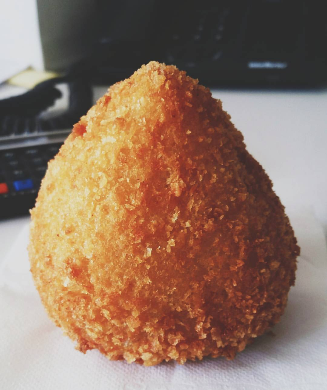 Coxinha